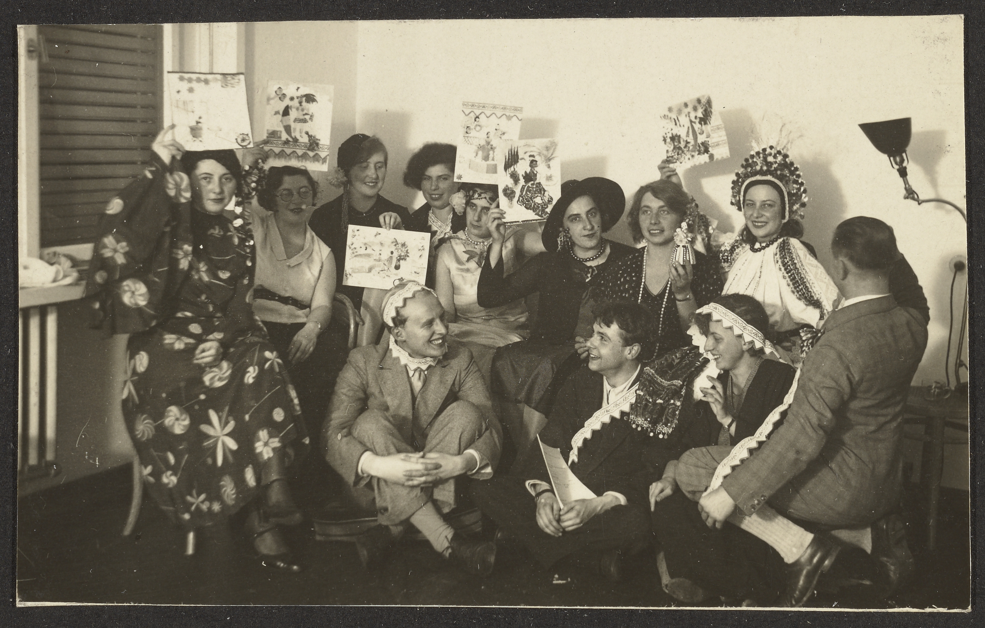 [Party at Otti Berger's]; Attributed to Otti Berger (Hungarian, 1898 - 1944); Germany; October 1930; Gelatin silver print; Sheet: 4.9 × 7.9 cm (1 15/16 × 3 1/8 in.); 85.XP.260.79